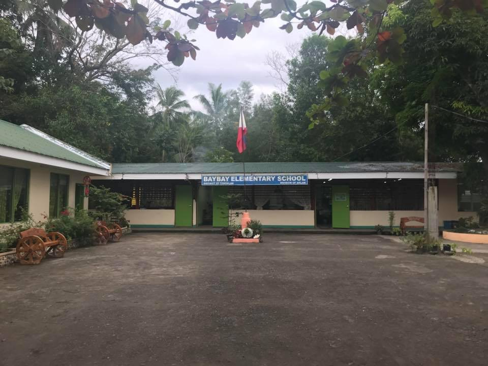 The front square of Baybay Elementary School showing the main building and the Grade 2 and 3 building on the side.